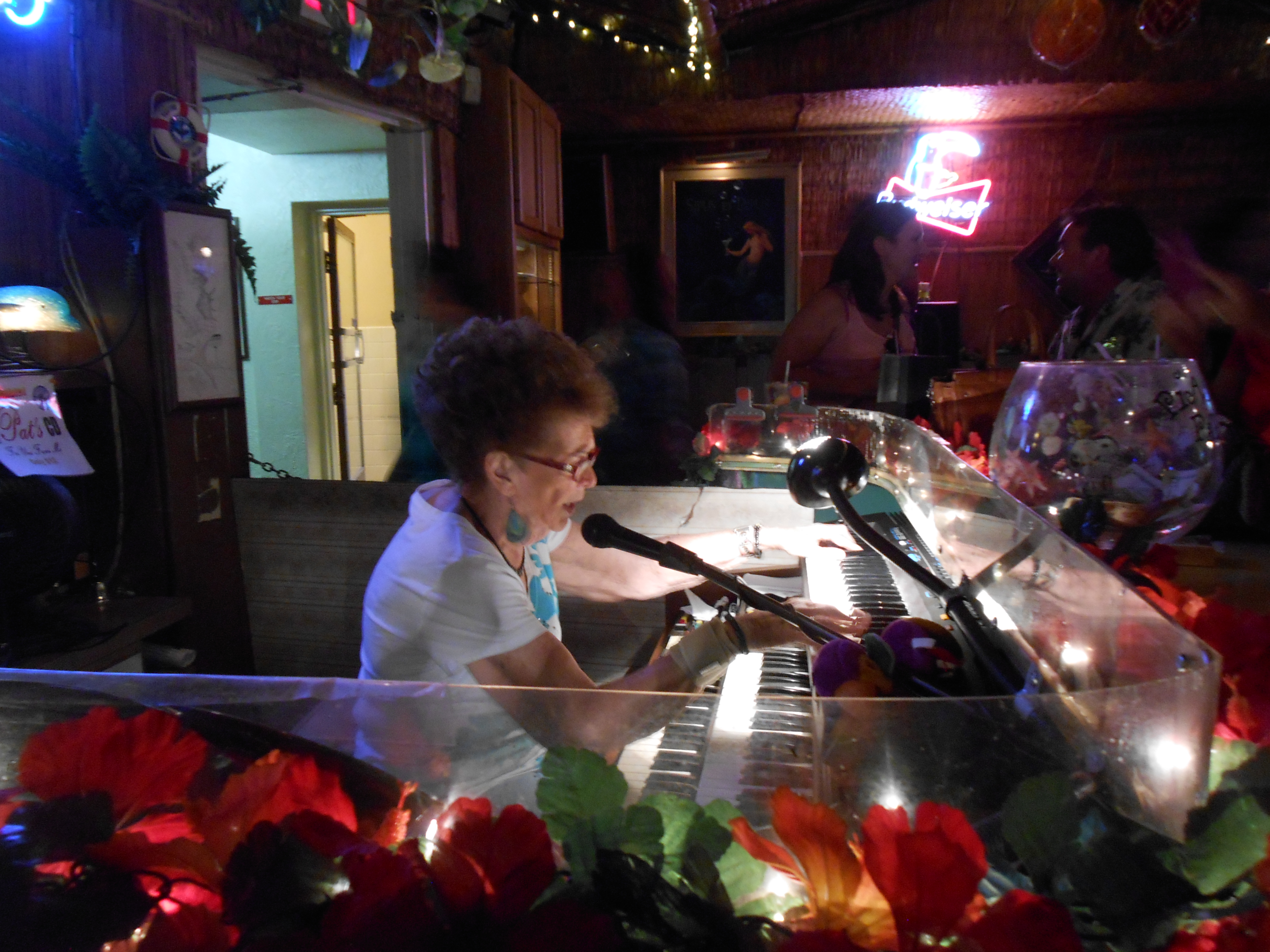 "Piano Pat" at the Sip n Dip, Great Falls, Montana, 2014